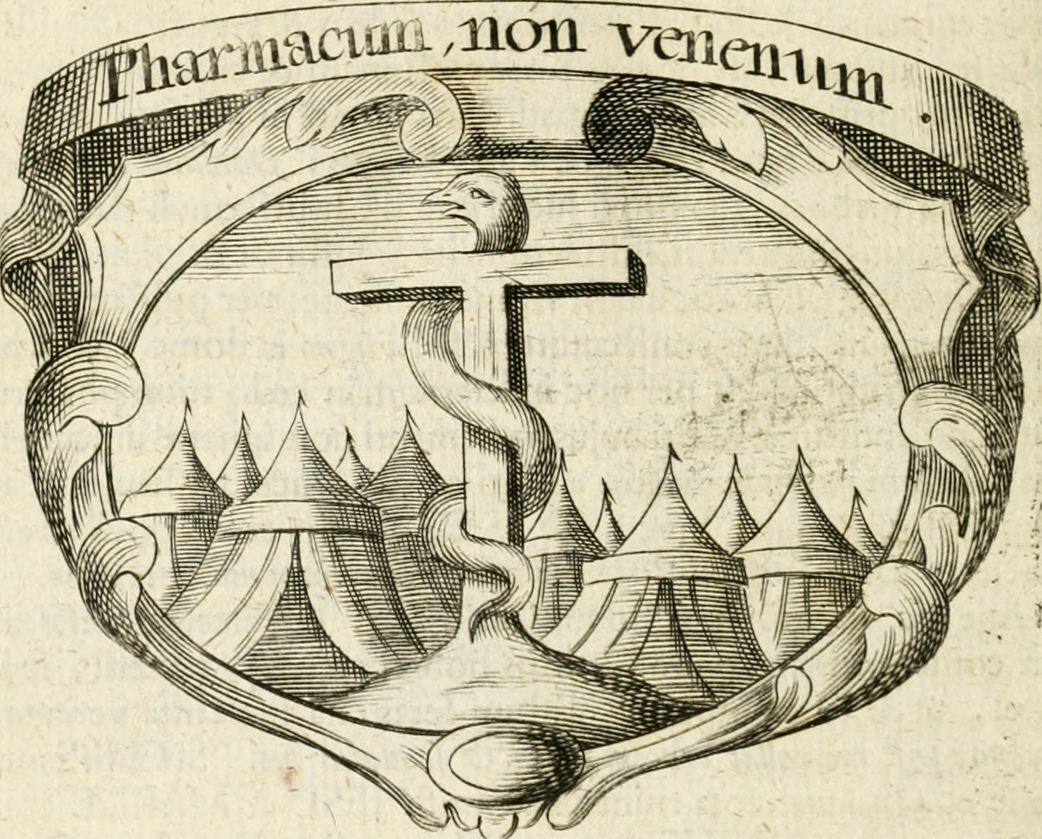 Title: Mater amoris et doloris : quam Christus in cruce moriens omnibus ac singulis suis fidelibus in matrem legavit, ecce mater tua : nunc explicata per sacra emblemata, figuras scripturae quàm plurimas, conceptus varios praedicabiles, SS. patrum sententias, raras historias, & pios ad Jesum patientem, ac sanctissimam matrem ejus compatientem affectus : opus omnibus Jesum & Mariam amantibus, praedicantibus, aut meditantibus perutile, com triplici indice considerationum, rerum memorabilium, & concionatorio, formandis per annum concionibus opportuno Year: 1726 (1720s) Authors: Ginther, Antonius Subjects: Mary, Blessed Virgin, Saint Emblems Publisher: Augustae Vindelicorum : Sumptibus Georgii Schlüter & Martini Happach Text Appearing Before Image: F f z CON- 2i8 -^)t(^- CONSIDERATIO XXXIII. In cpnipeftu afHiftiffimae Matris Filius JEfus in-fami crucis patibulo affigitur. Text Appearing After Image: j, C«r. 4.9 Martyrol.Kom I,rctj. Poftquam venerunt in locum, qui vocatur Calva- rias^ibicrucifixerunt cum. Luc.z^. ^3, \ D rped^aculum hodle invitarls, anima Chnfliana, cui fi-mile hadVenus non vidit, nec ampliiis videbit mundus:SfeHaculum, inquit Apoftolus, fa^i fumns mundo, &Angelis & hominibus i ubi alludit ad perfecutiones 8Cmartyria Apoftolorum , ac praefertim ad illos beftia-rios, primosqueSS.Martyres, oui Romac 6^ alibi qua-fi be/lix caveis inclufi in amphitheatro publico, fped^ante Imperatore dCpopuloRomano, beftiis objicicbantur; inter quos praceminet D. Ignatius.tertius poit S. Petrum Antiochejisc Egcleliac Epifcopus, ^ui in perfecutionc